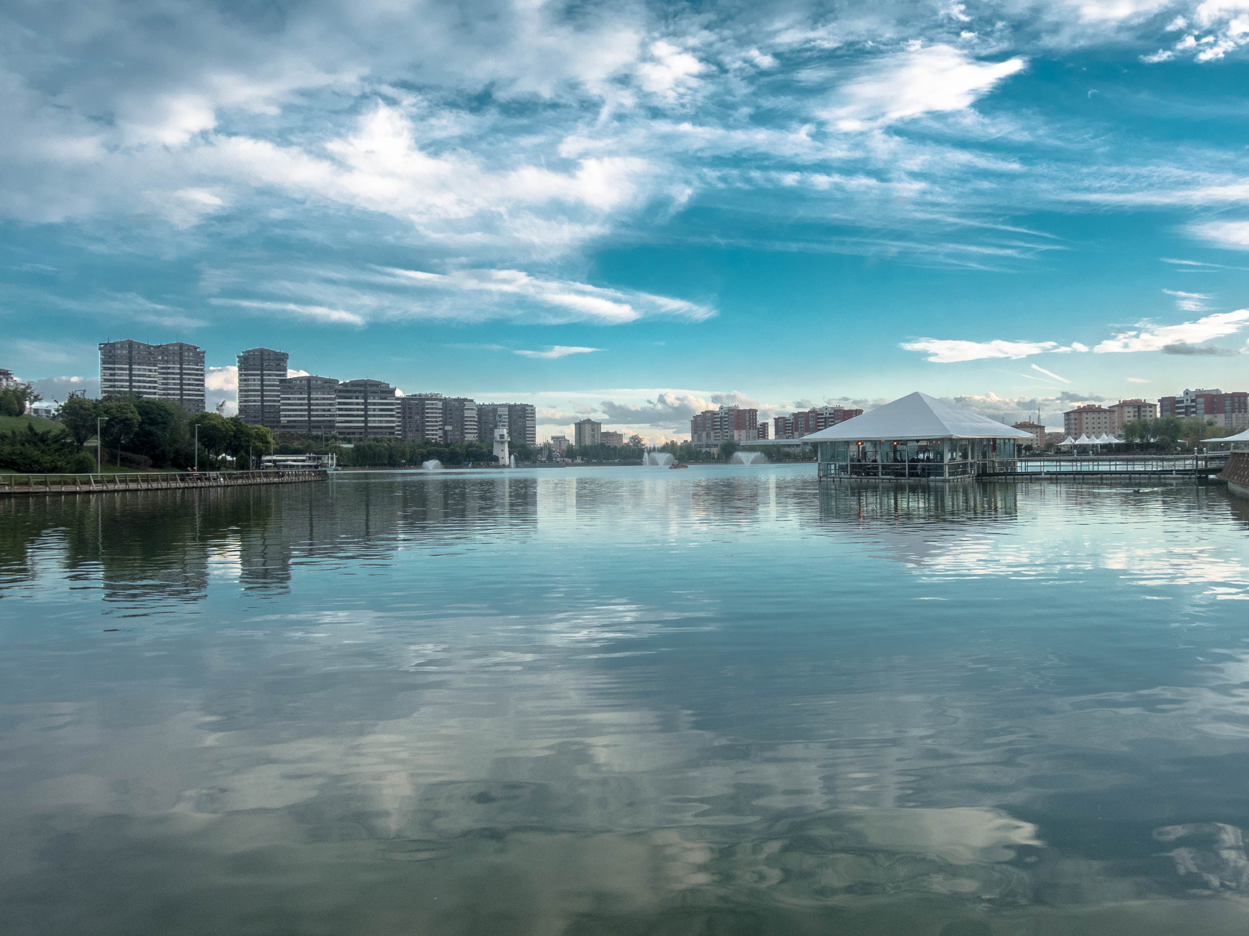 feel free to use my images. Just credit my name and link to my flickr account. Do not forget send a message to me :)